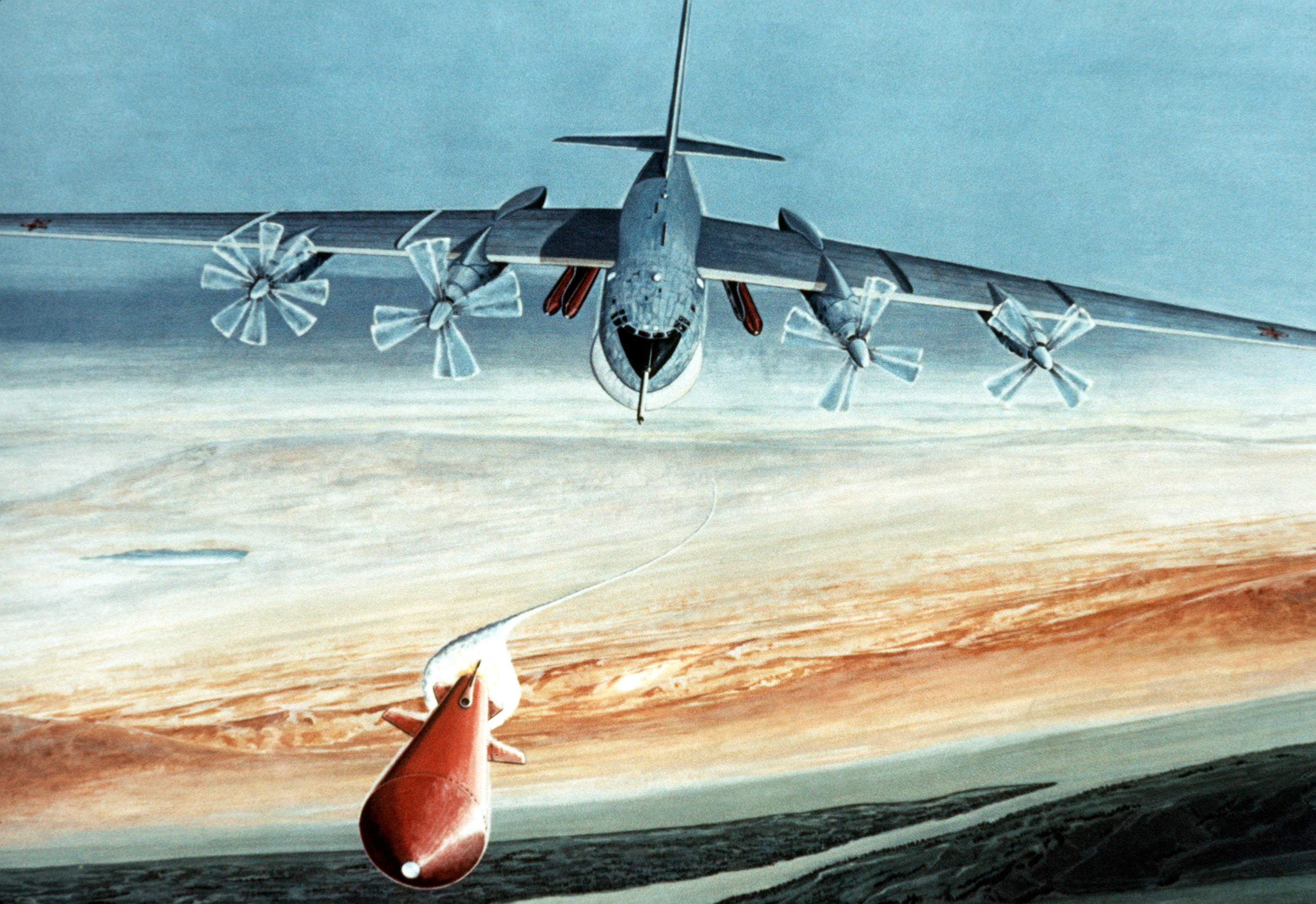 Artist's concept of a Soviet Tu-20 (Tu-95) Bear-H aircraft launching an AS-15 cruise missile. From Soviet Military Power 1985.